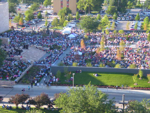 Jazz on the Green, summer 2009.